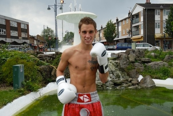 Ashley Sexton In Home Town Cheshunt (Cheshunt Pond) After English Flyweight Title Win